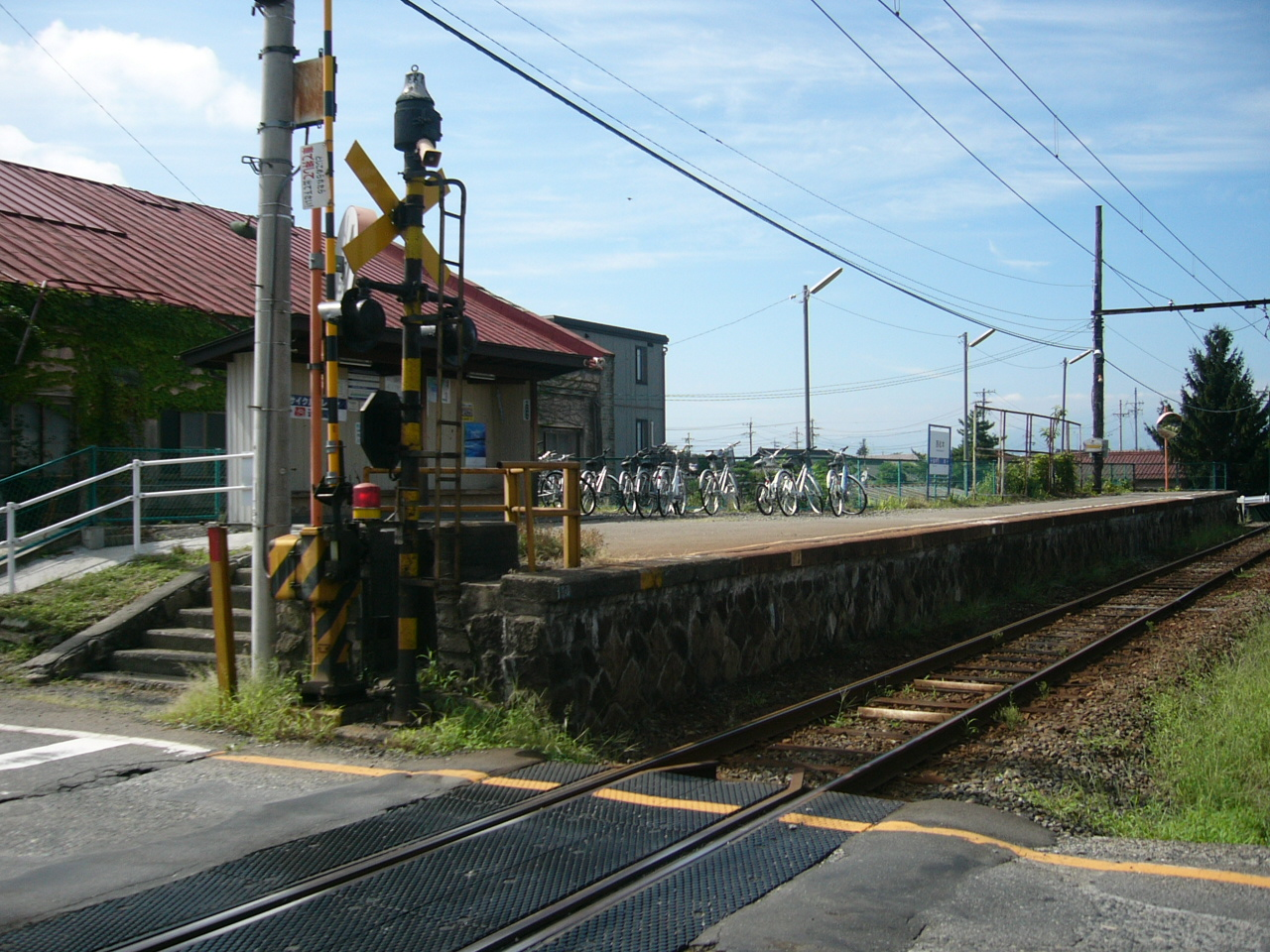 Nishimatsumoto Station